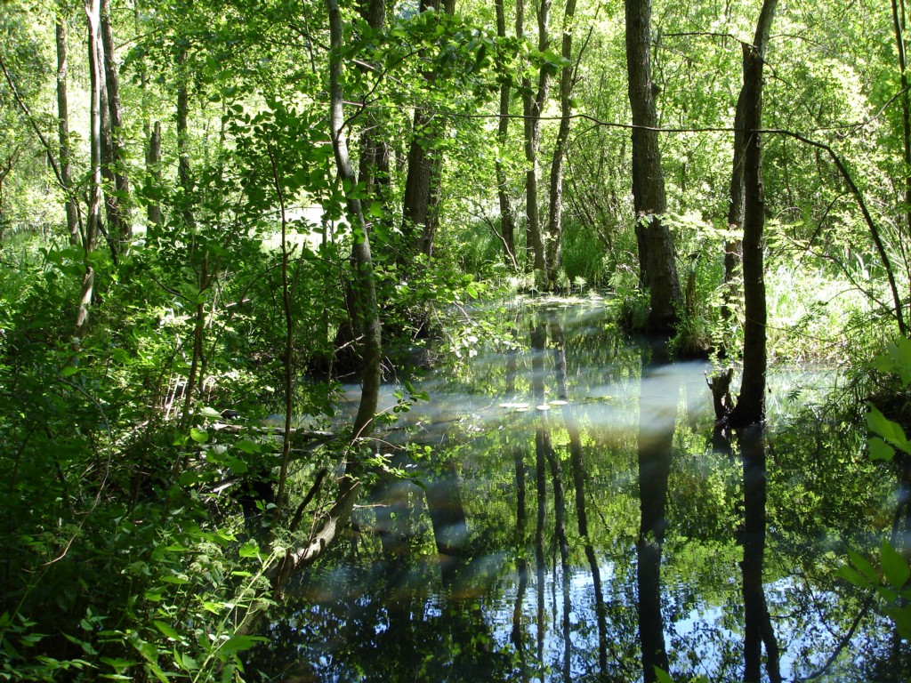 swamp in Kokořínský důl, Czech Republic